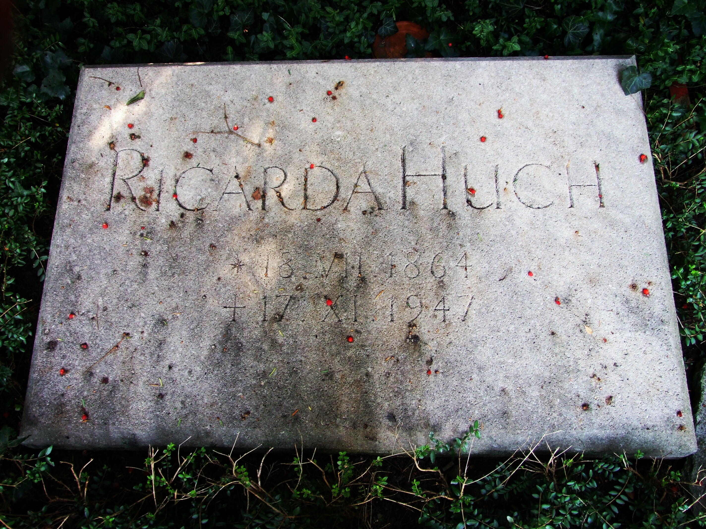 Grave of Ricarda Huch, Hauptfriedhof, Frankfurt am Main, Germany